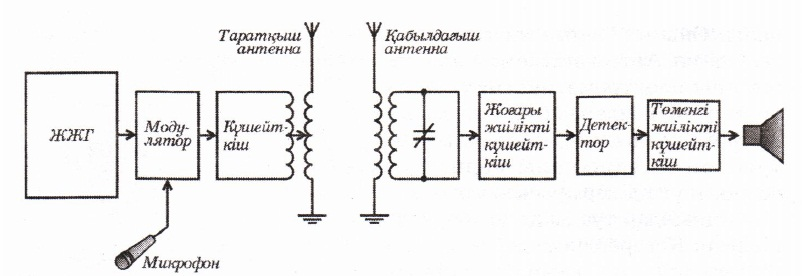 Fizika 3.20